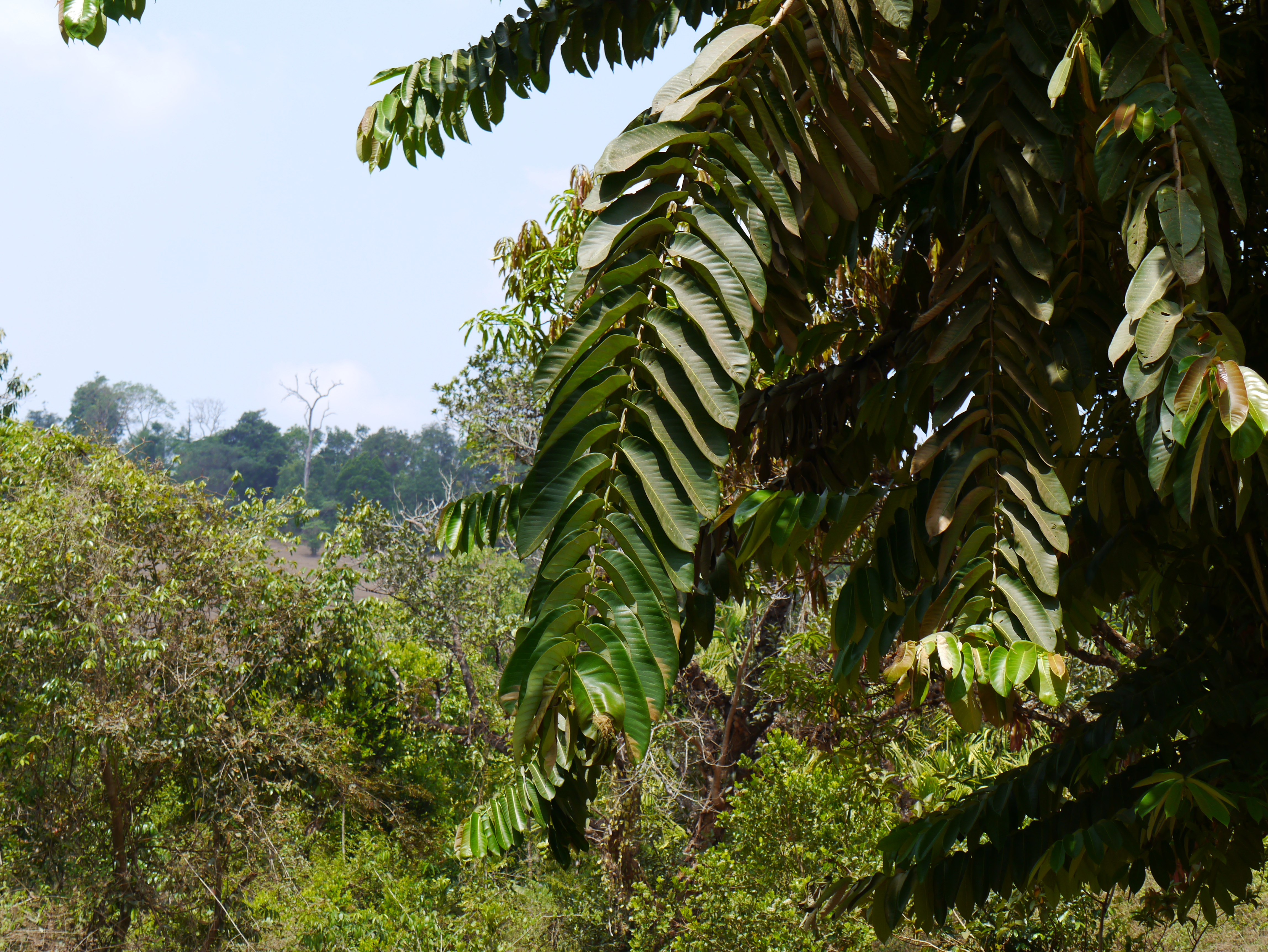 Lythraceae (Lythrum, or loosestrife family) » Duabanga grandiflora doo-uh-BAN-guh -- Latinized form of Hindu vernacular name gran-dih-FLOR-uh -- with large flowers commonly known as: duabanga • Assamese: থোৰা thora, খূকৰ khukan • Bengali: bondorphulla • Nepali: लाम्पाते lampate • Tripura: duyabangga Native to: south east Asia References: Flowers of India • eFlora • Wikipedia